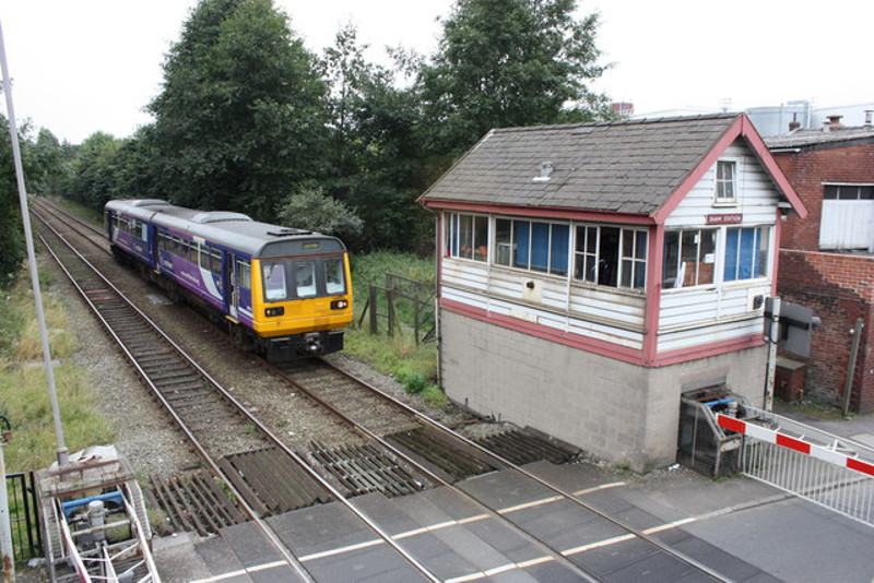 Class 142 train and Shaw Station Signal Box A class 442 Northern train passes the signal box and approaches Shaw and Crompton Station just a fortnight before the Oldham Loop line closure for conversion to Metrolink tram operation.